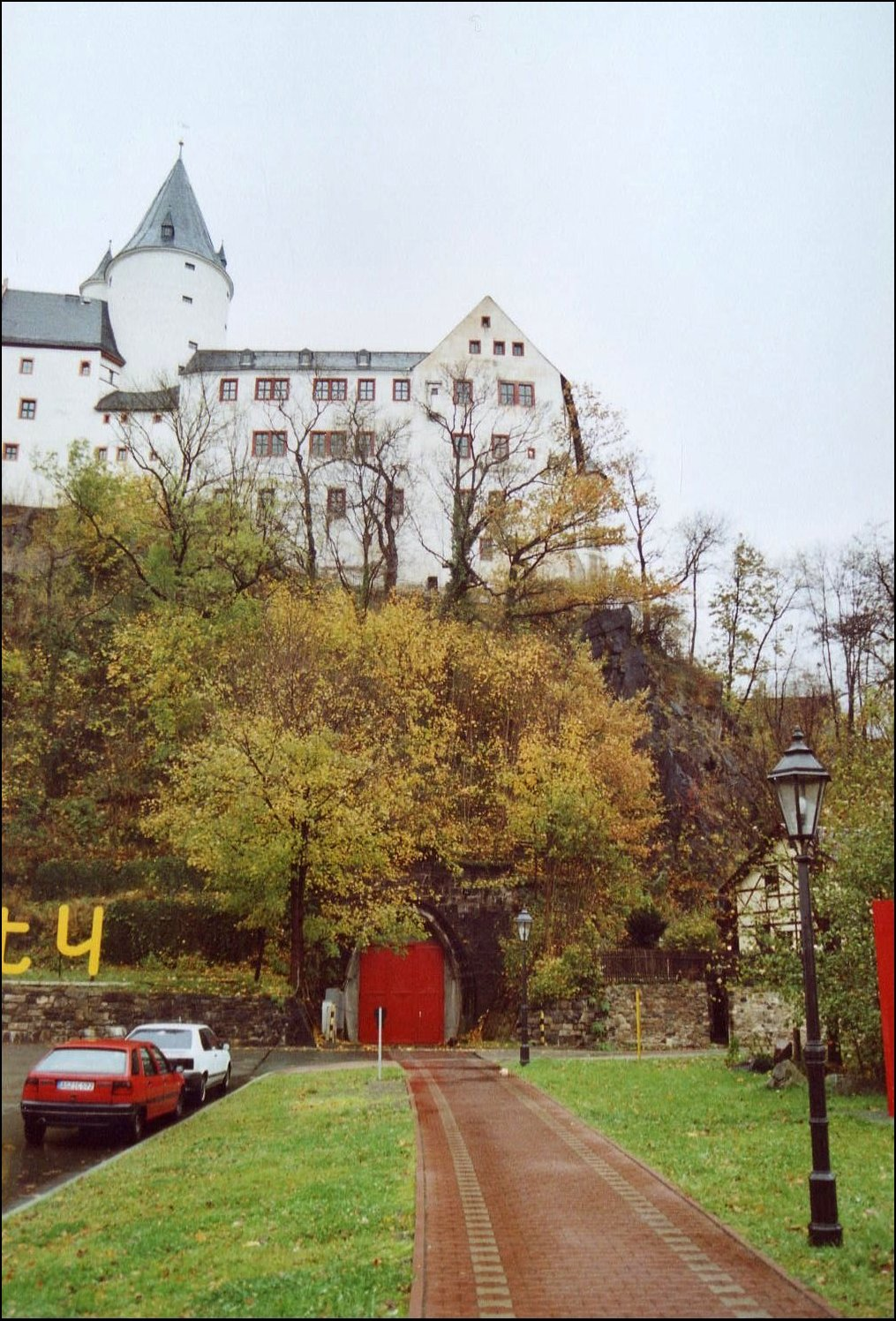 Schwarzenberg: This image shows the Schloss in Schwarzenberg. The tunnel (103 m) was a part of the railway line Zwickau - Johanngeorgenstadt from 1882 to 1952. He is nowadays used for cultural activities.